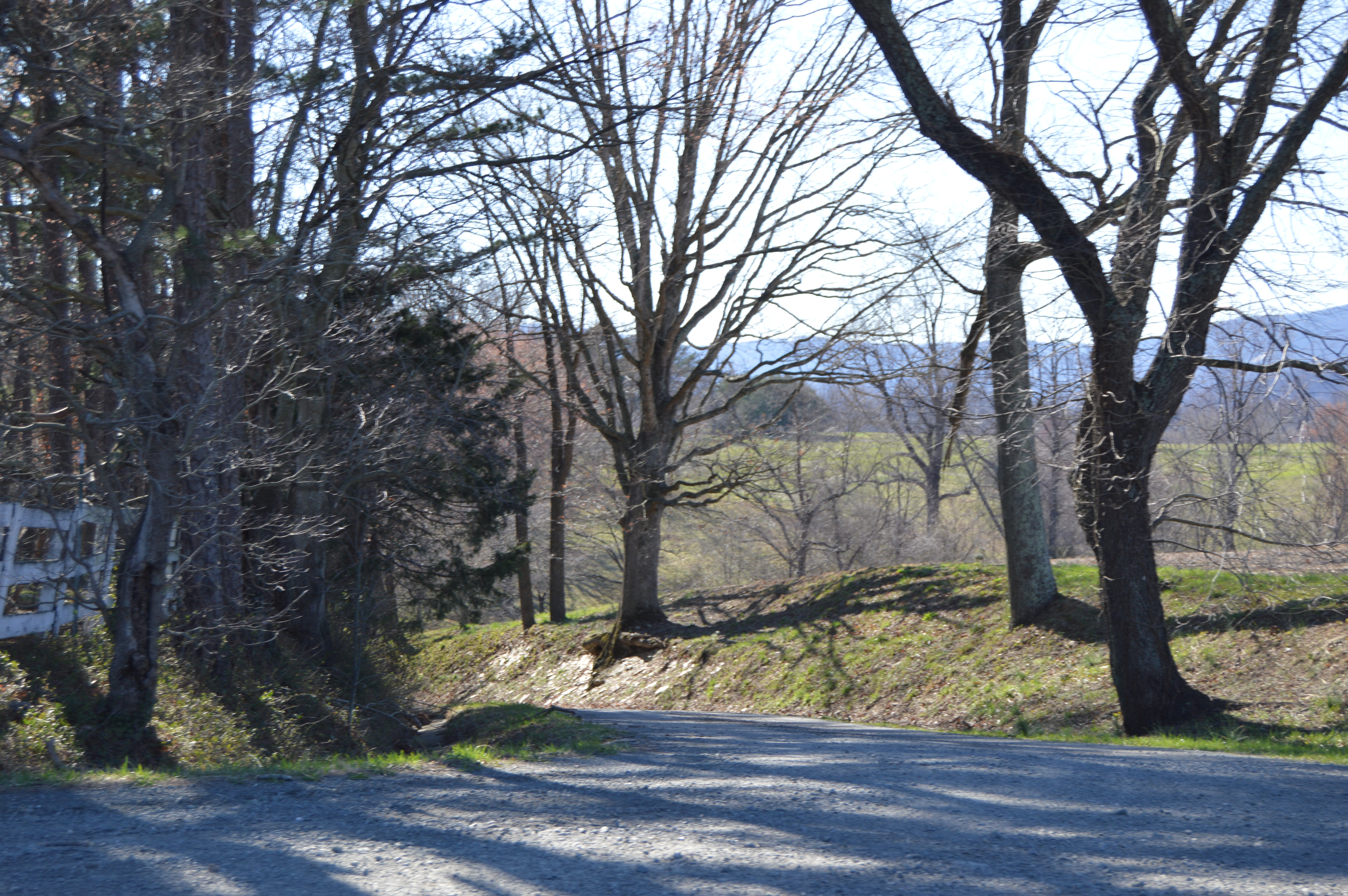 Entrance to the driveway of the Piedmont estate, located off Greenwood Road southwest of Charlottesville in Albemarle County, Virginia, United States. The estate is listed on the National Register of Historic Places.